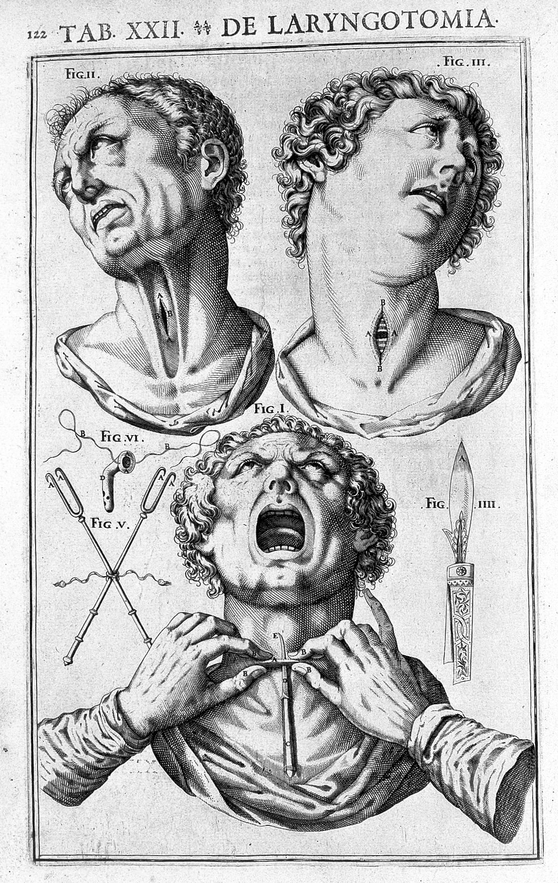 Tracheotomy. Rare Books Keywords: Placentinus Julius Casserius; Ranuccio Farnese